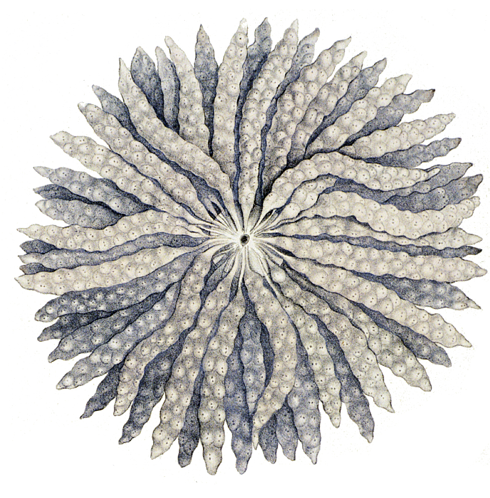 Loligo vulgaris